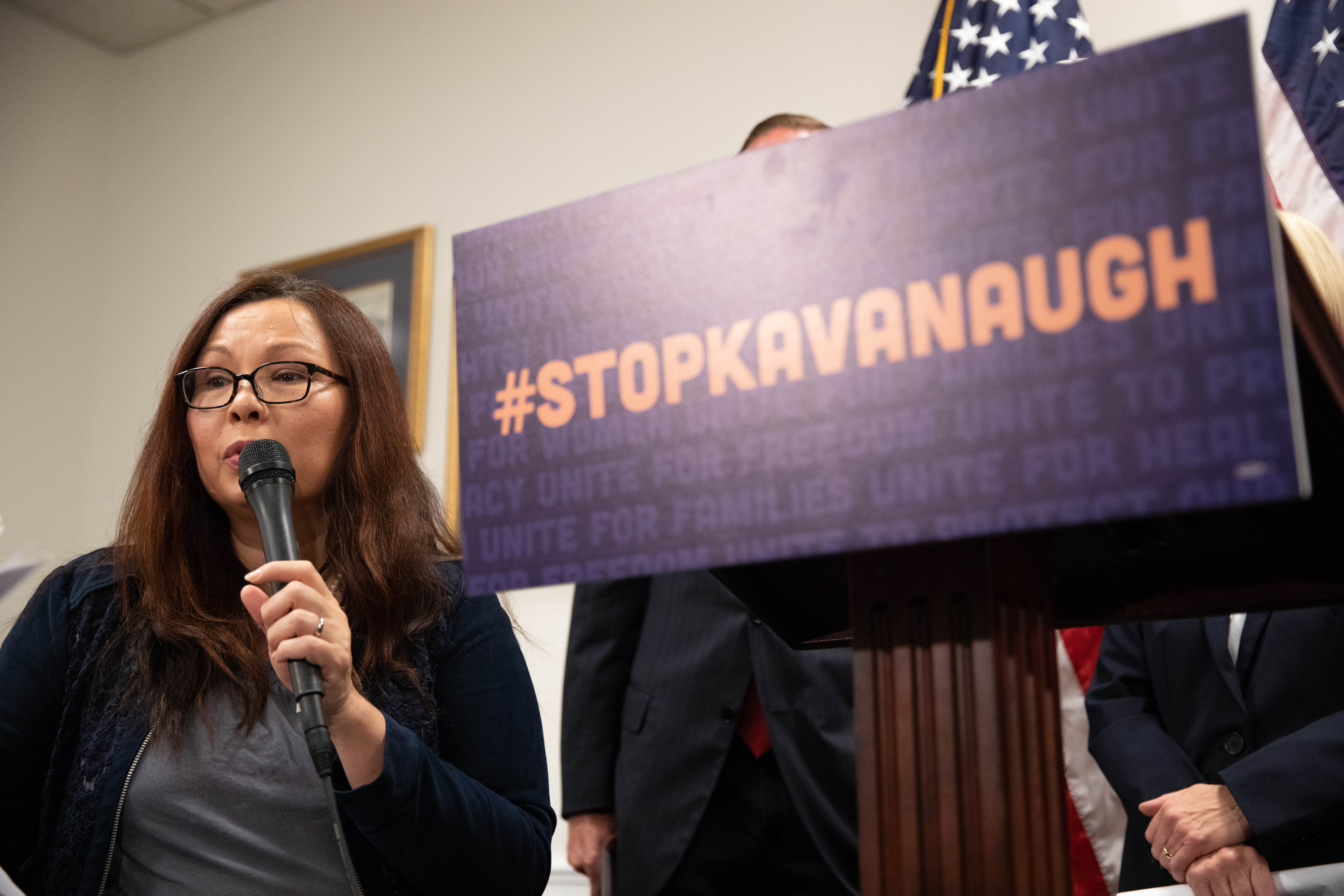 Murray_StopKavanaugh_Presser_090618 (18 of 51)